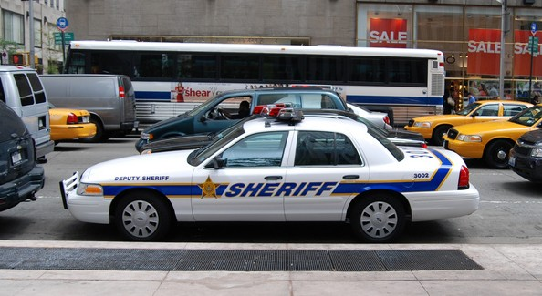 New NYC Sheriff RMP.